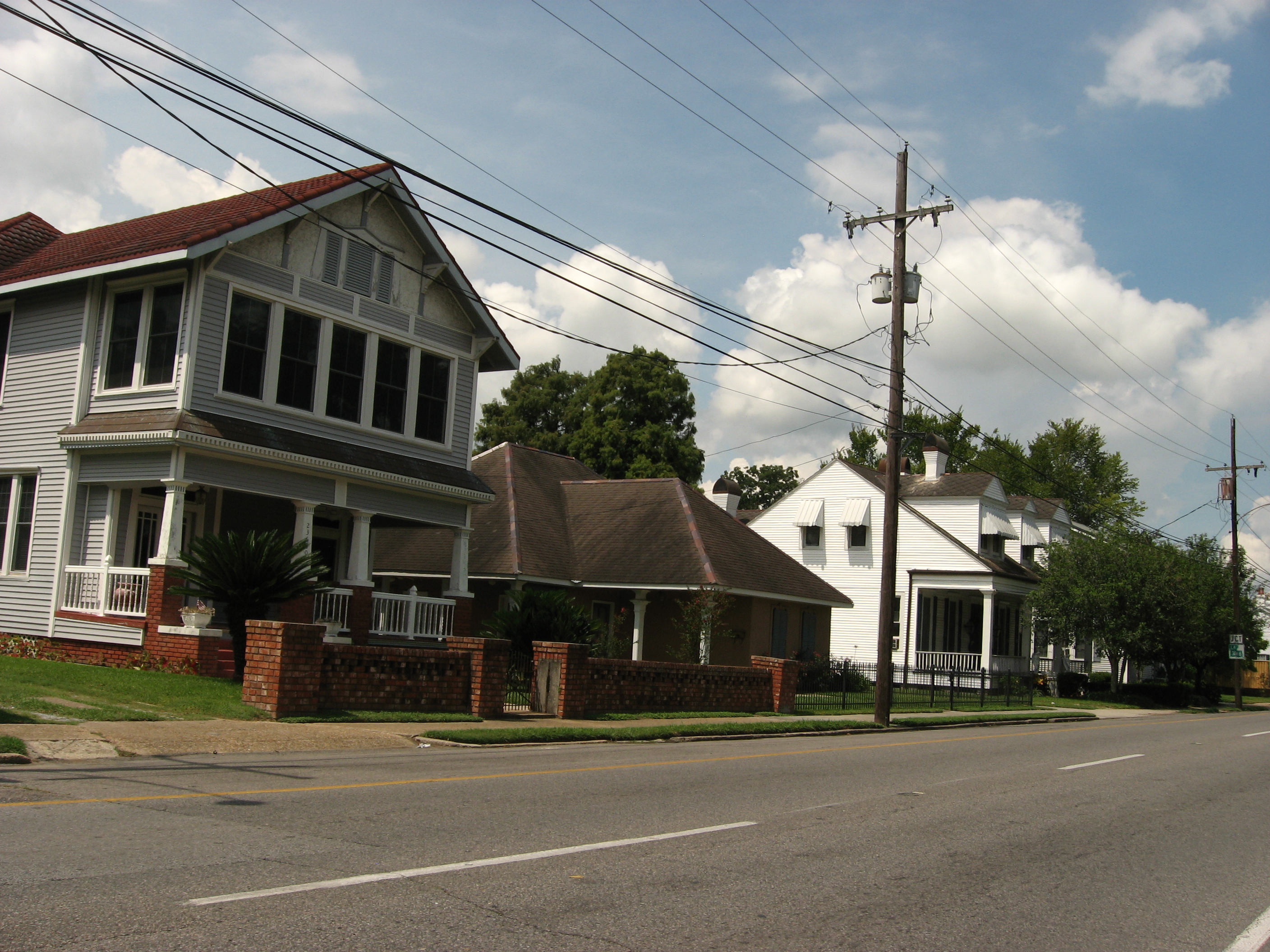 Plaquemine is a city in and the parish seat of Iberville Parish, Louisiana, United States. Residential street scene.